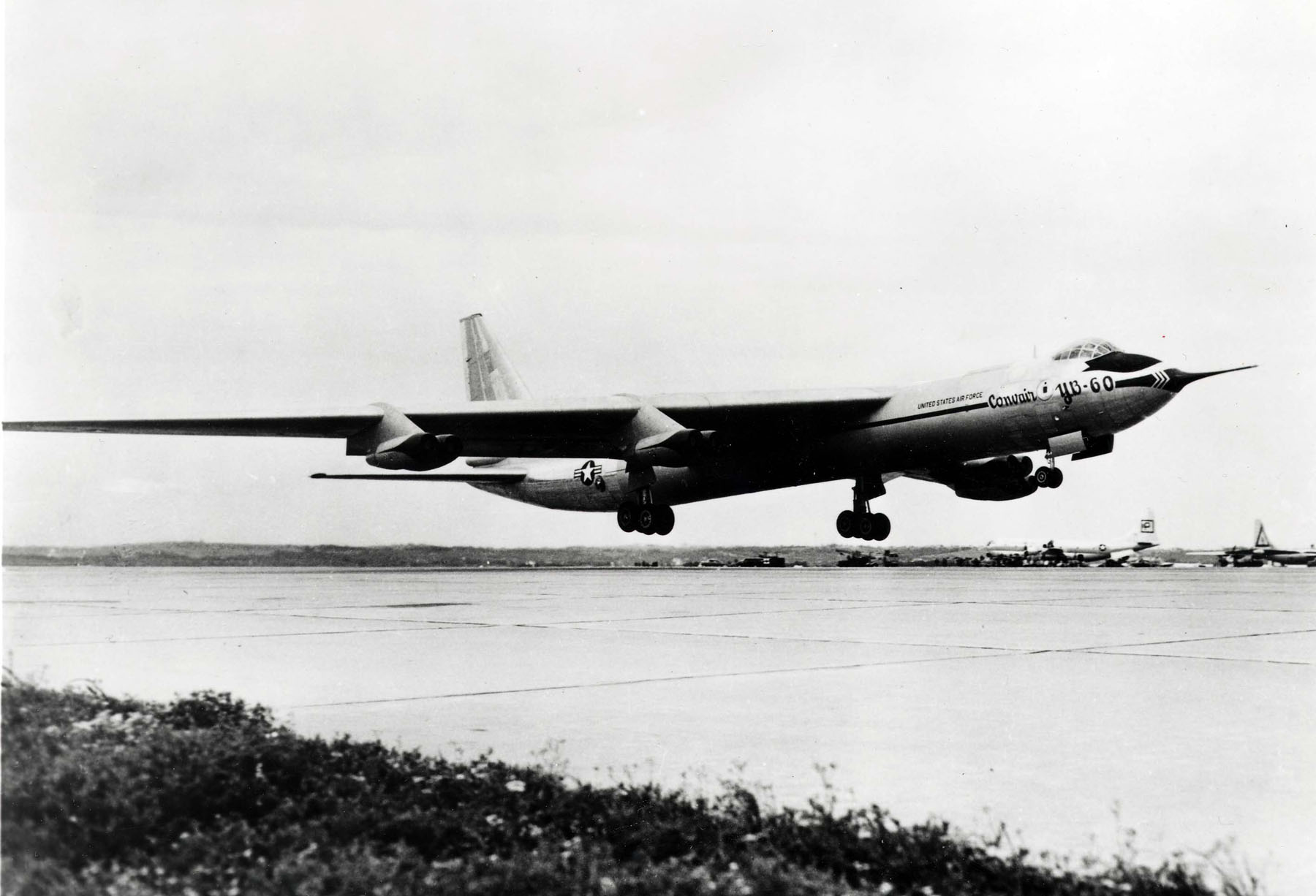 Convair YB-60 at takeoff